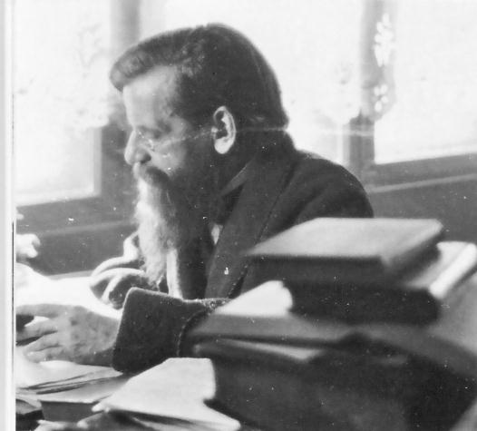 Adolf Schlatter in Tübingen (Germany)